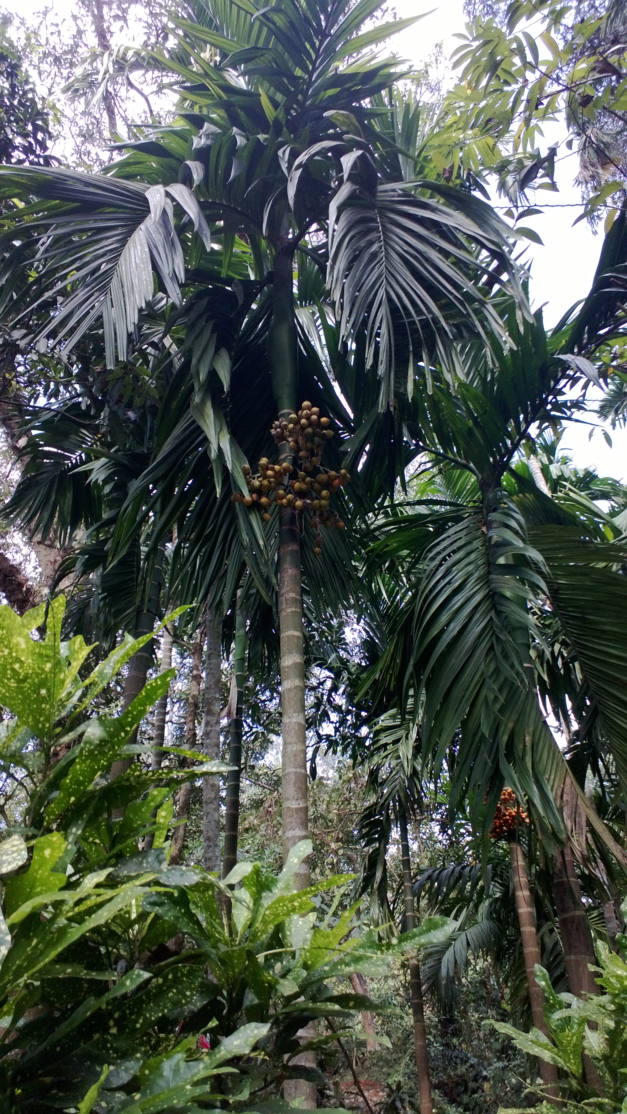 Betel nut palms cultivated at the Tropical Spice Plantation in Curti, Goa.